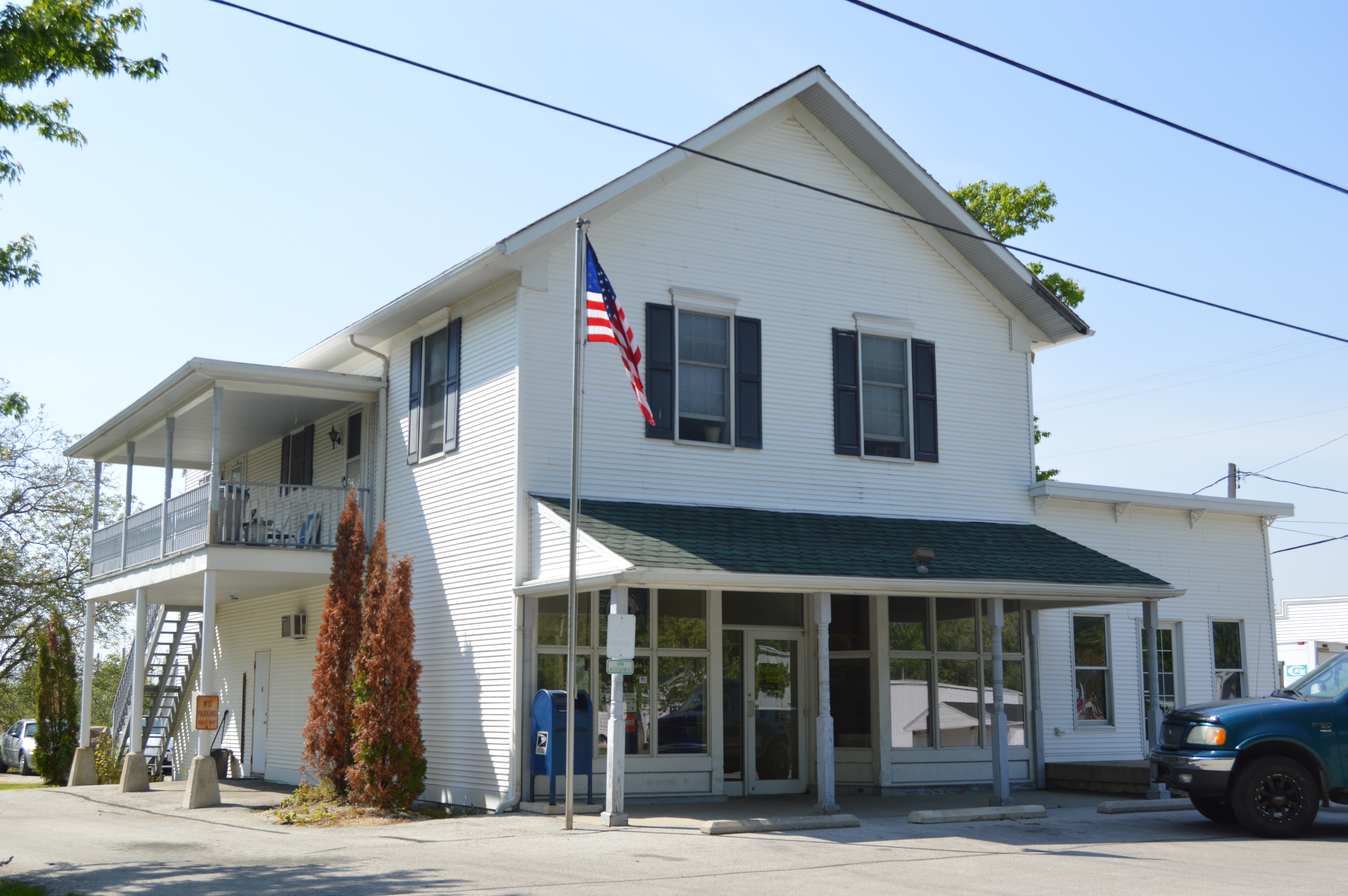 Front of the Martin post office, located at Genoa Area High School, located at 2918 First Street at Martin on the northern edge of Clay Township, Ottawa County, Ohio, United States.